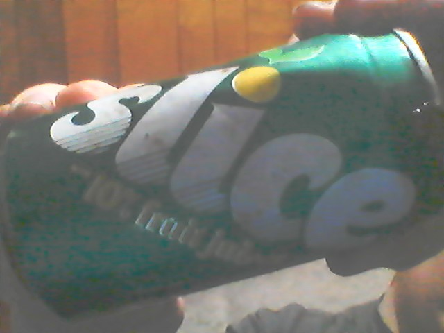 A Picture of a can of splice that i found in the ground of my yard. I took the picture with my laptop webcam in my room.